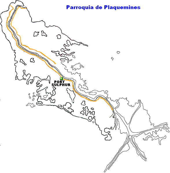 Port Sulphur locator map